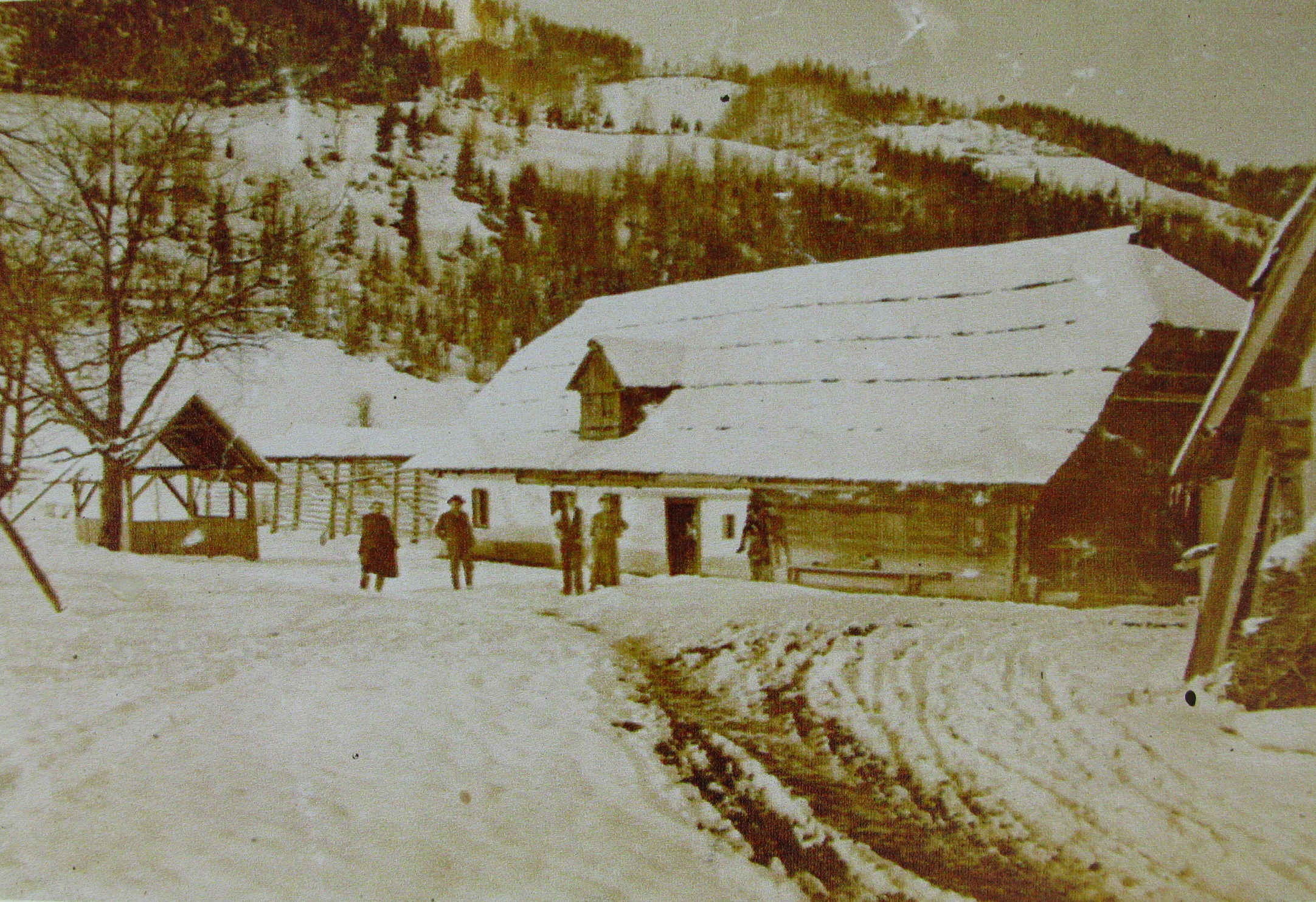 The farm Bodenbauer (slow. Podnar) 1910 near Ferlach / Carinthia / Austria / EU. In comparison with nowadays the mountains in the background are not very tight coverd with trees what's a sign for using wood as pasture. ⇒ The same camera position in Summer 2008, in Winter 2008.